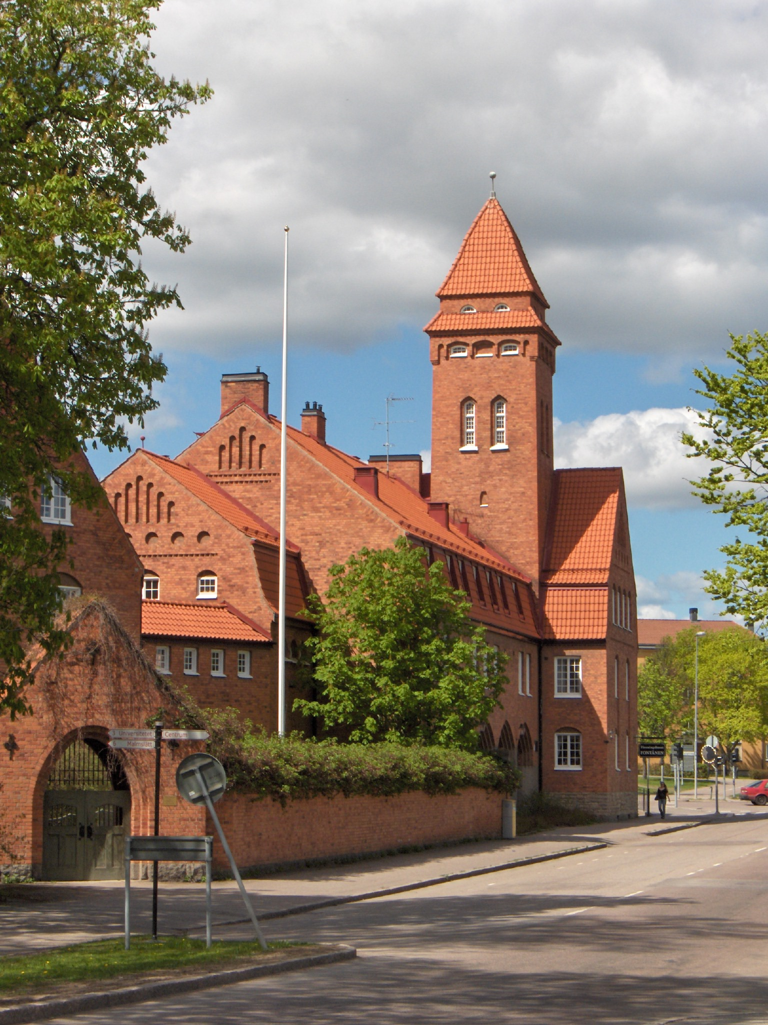 Former fire station in Linköping, Sweden, built in 1915. Now housing club rooms under the name Fontänen.